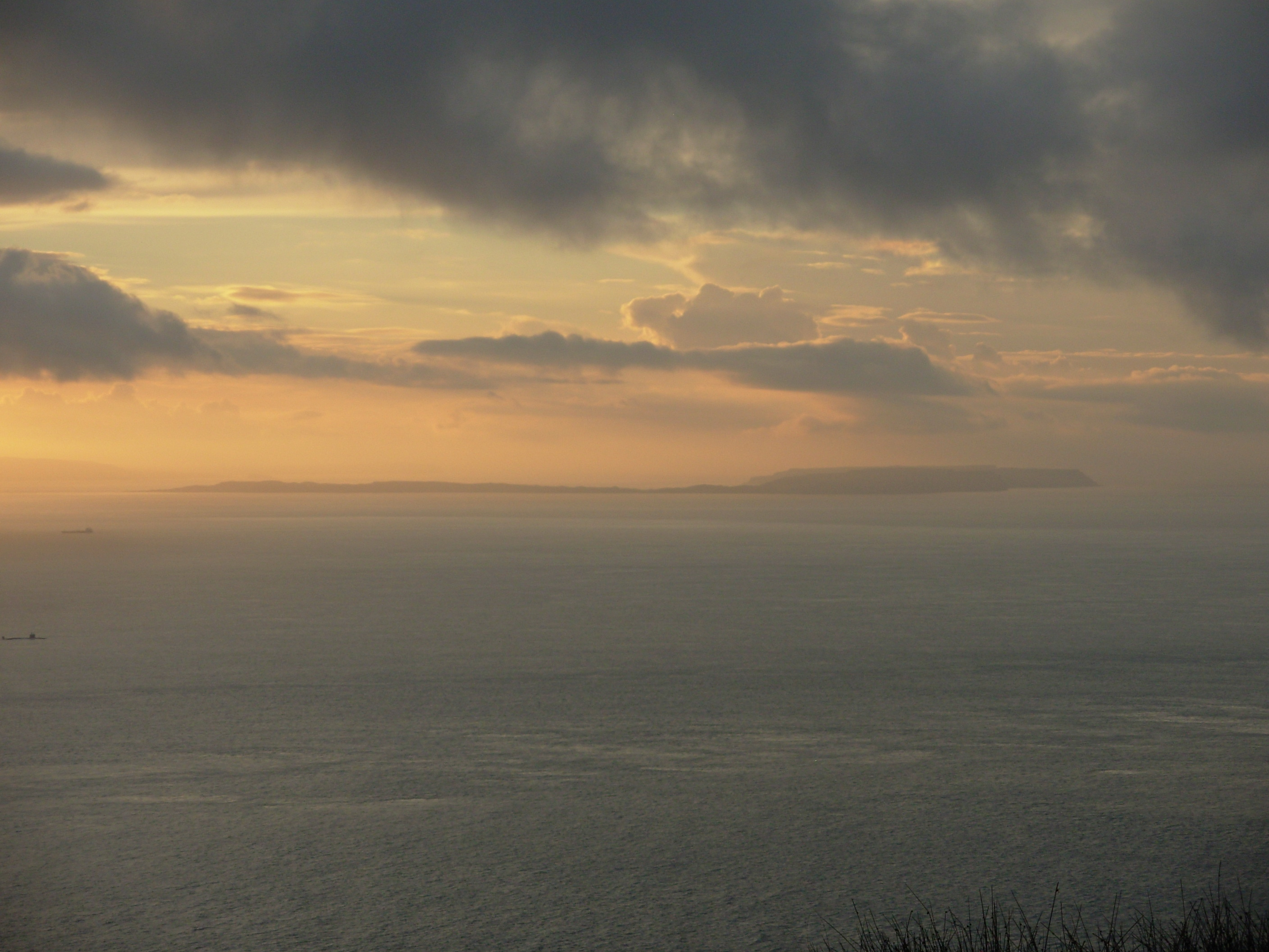 Rathlin Island, County Antrim, Northern Ireland.